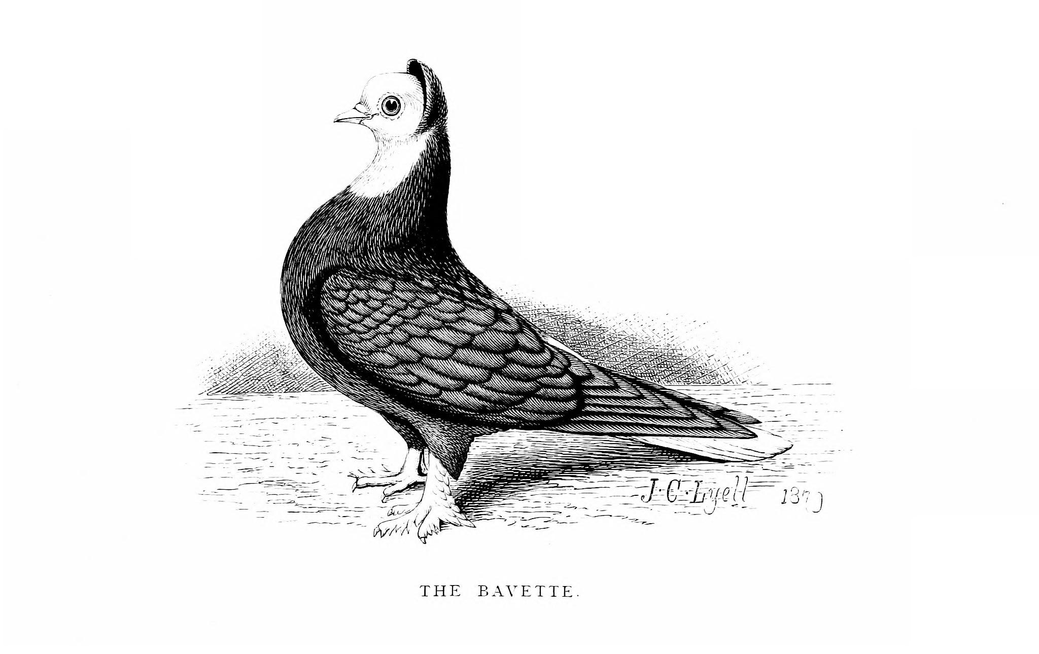 The Bavette by James C. Lyell, 1873